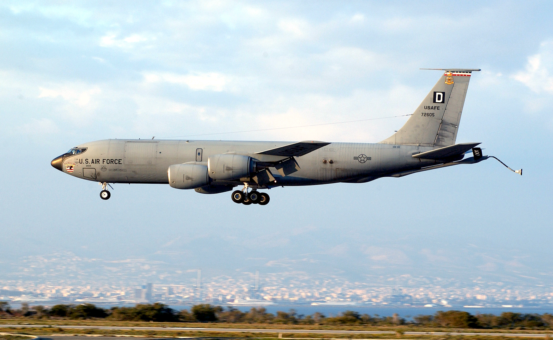 KC-135R (57-2605) Stratotanker from Royal Air Force Mildenhall, England, lands after a mission in the eastern Mediterranean in support of Operation Iraqi Freedom.